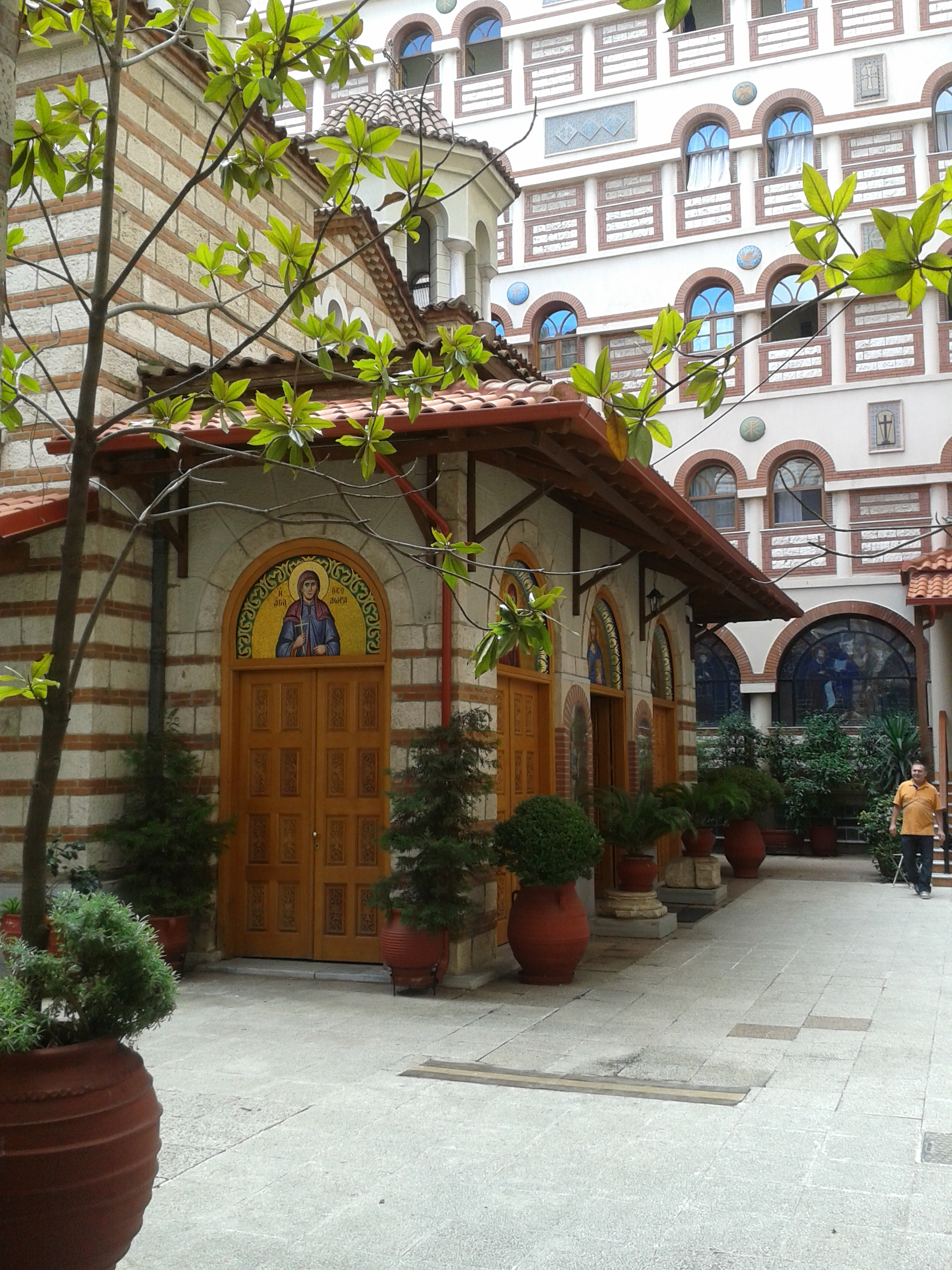 Saint Theodora Monastery in Thassaloniki Church